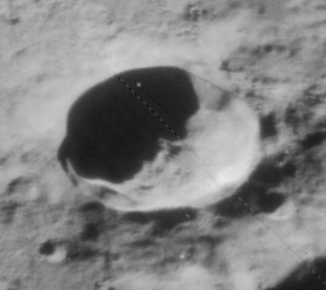 Oblique view of Thales crater, facing northwest, on the moon.